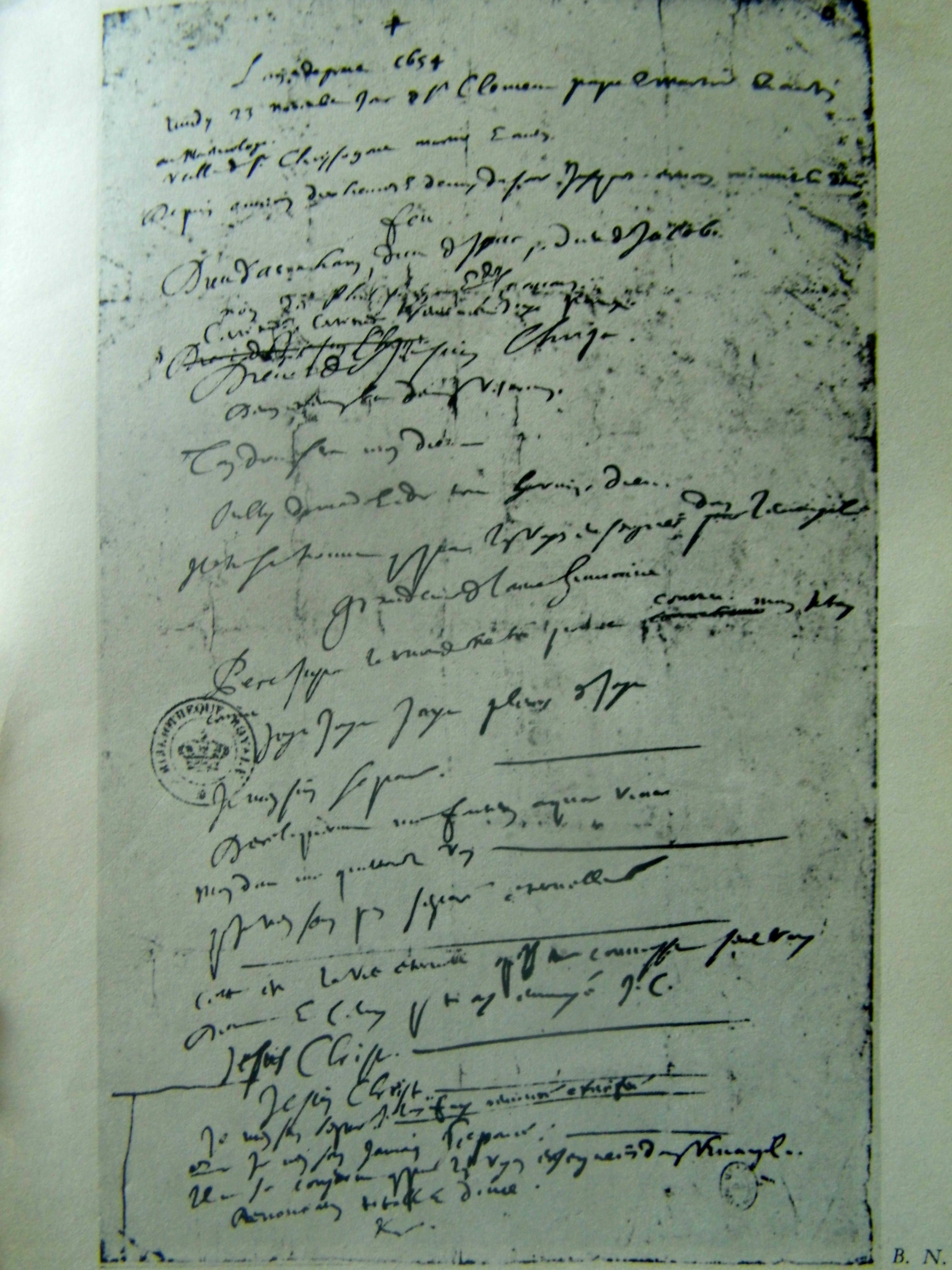 Le Mémorial de Pascal On 23 Nov. 1654, Pascal had an intense religious vision. He wrote it and hid the paper in his dress